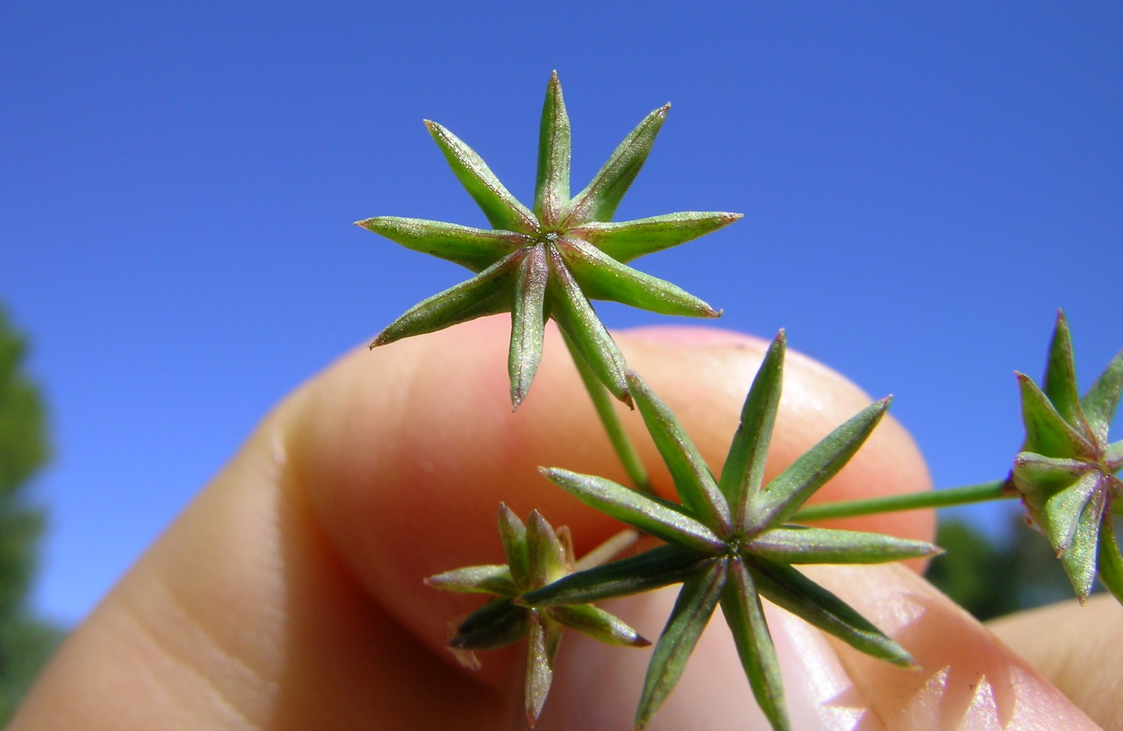 Damasonium minus fruit